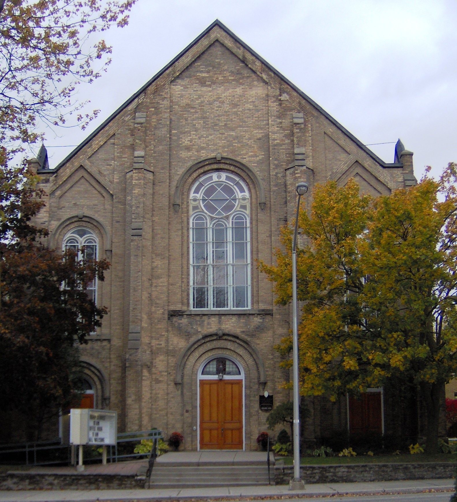 Norwich United Church, Norwich Ontario Canada